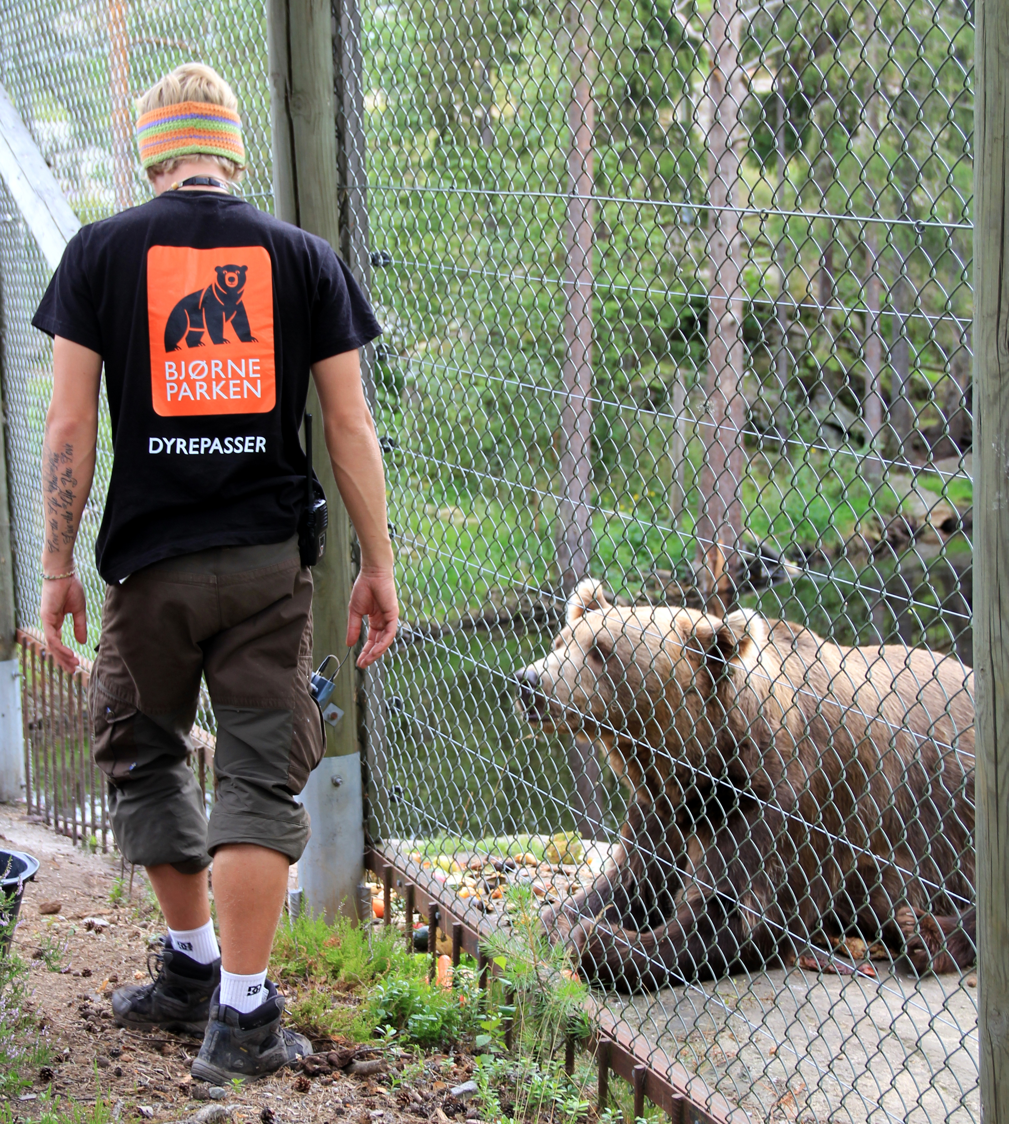 A zookeeper at Bjørneparken in Flå, Norway